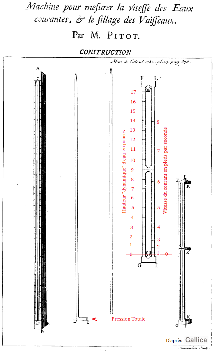 Description of Pitot's tube from the original drawing of his thesis at the Académie des Sciences (Mémoire of Henri Pitot presenting to the Académie royale des sciences his « Description d’une Machine pour mesurer la vitesse des Eaux courantes, et le Sillage des Vaisseaux » [2], p. 363 de : « Histoire de l'Académie royale des sciences ... avec les mémoires de mathématique & de physique... tirés des registres de cette Académie)